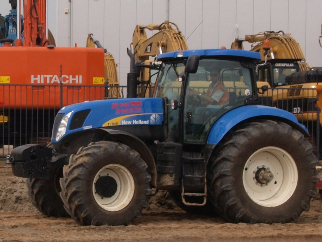 New Holland T7040.